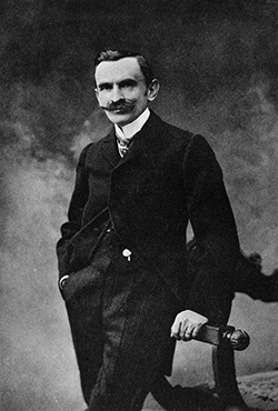 Emilio Maraini, Swiss entrepeneur (1853-1916)